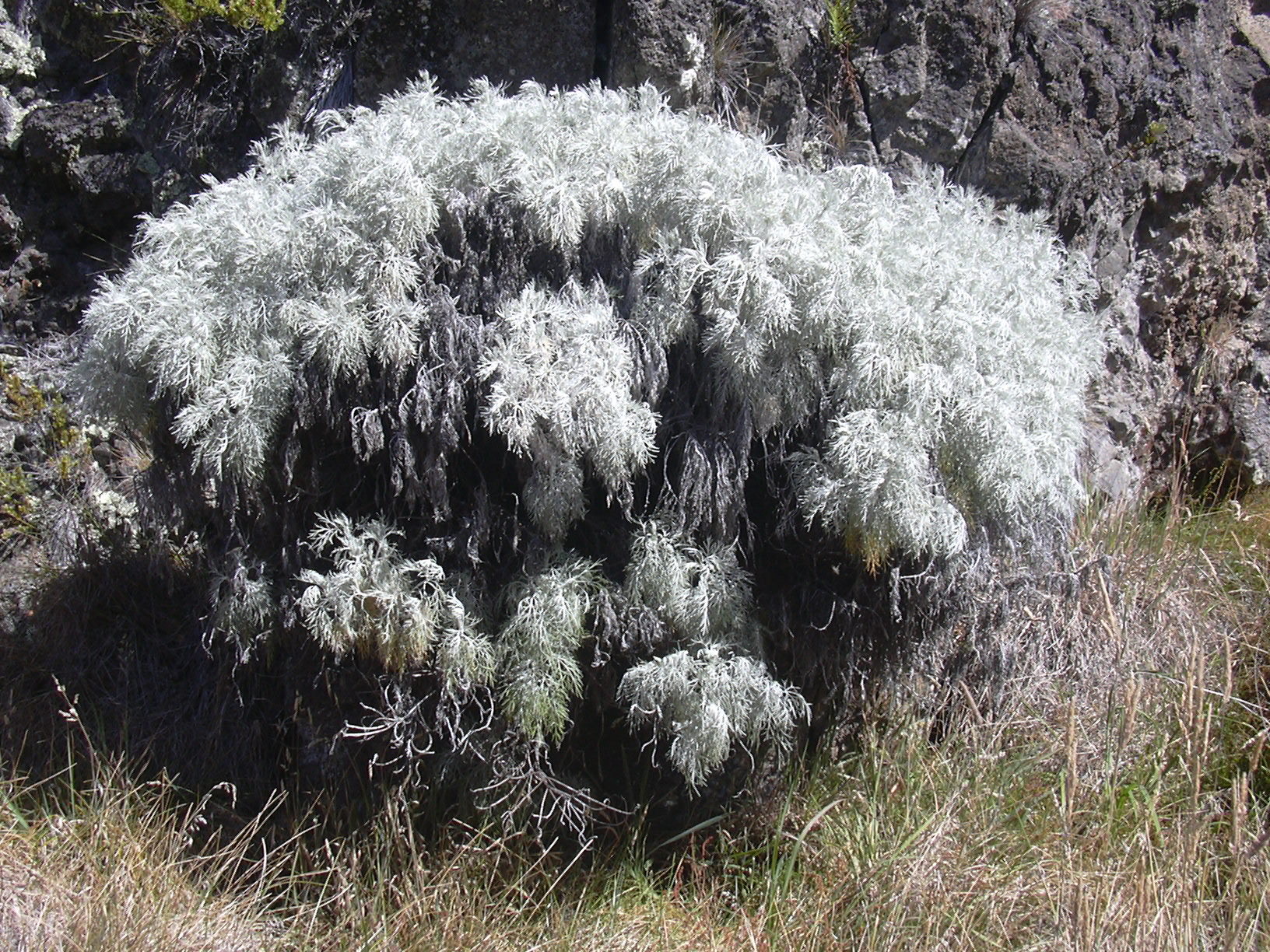 Artemisia mauiensis (habit). Location: Maui, Waikau trail Haleakala National Park